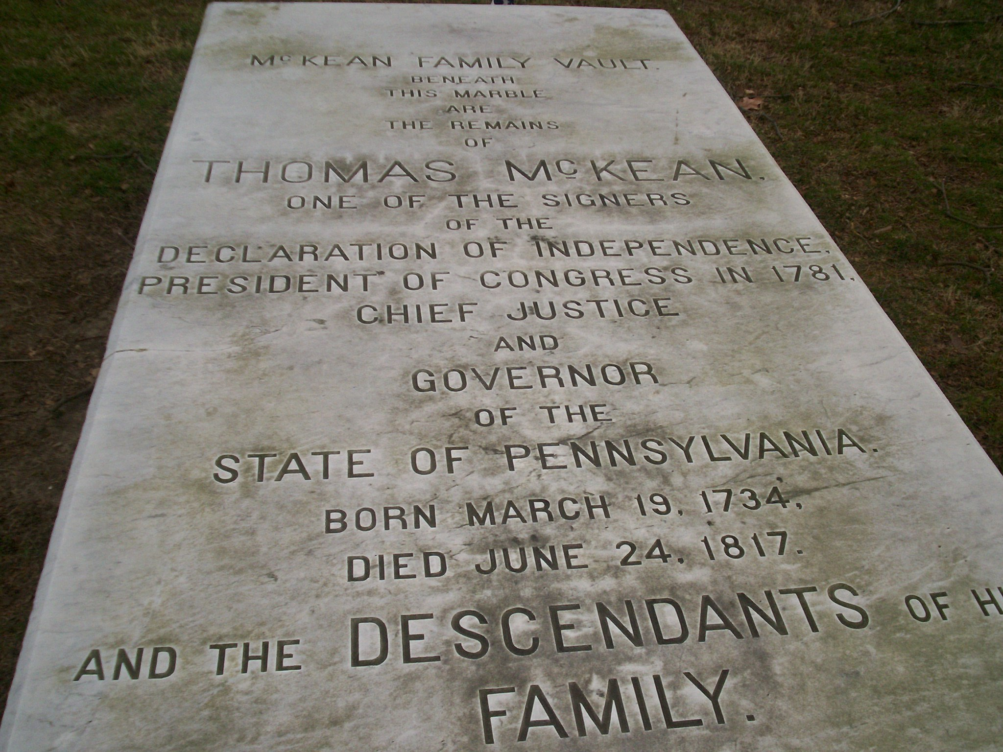 Grave of Thomas McKean (and descendants) at Laurel Hill Cemetery, Philadelphia